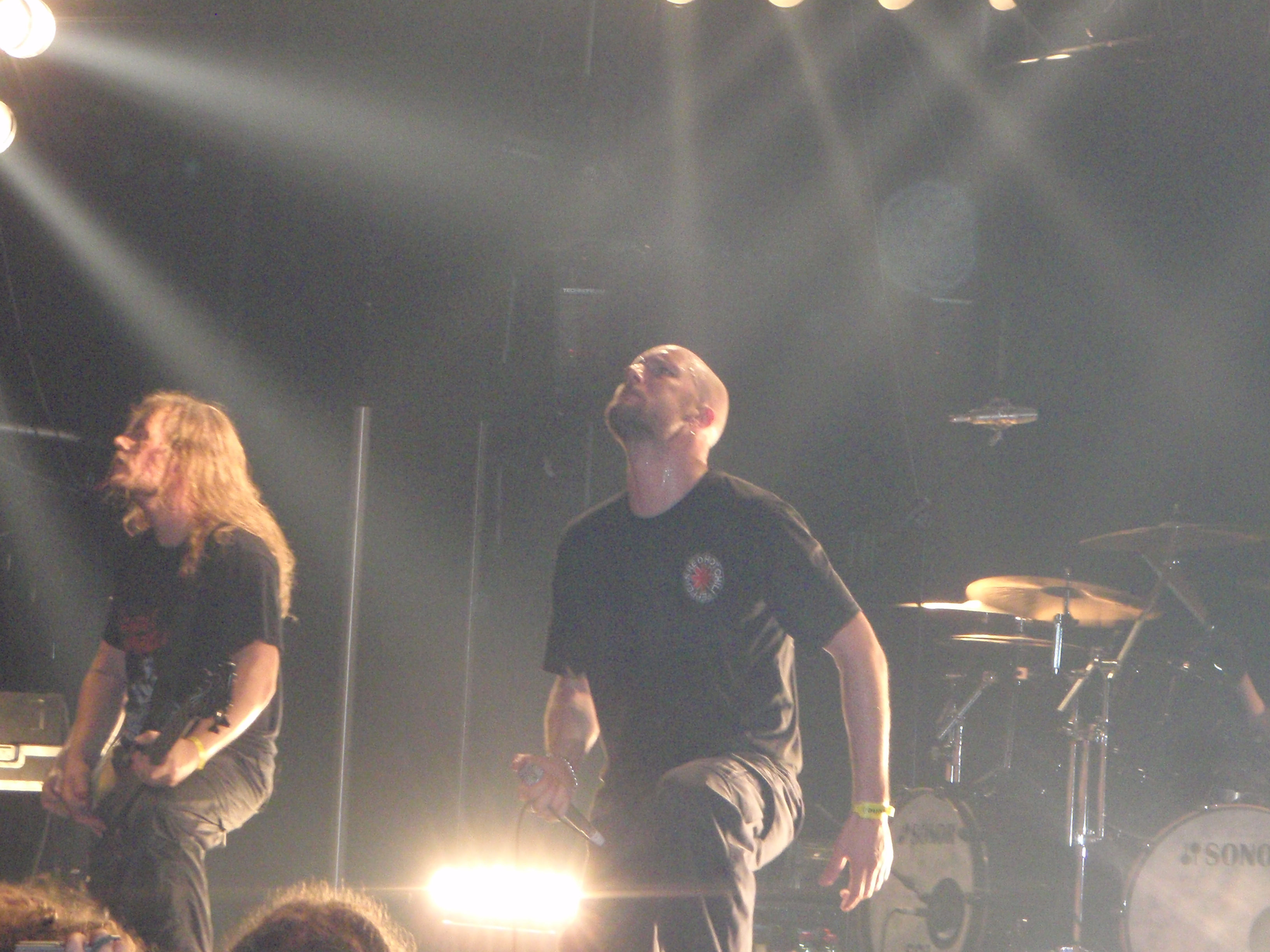 Progressive-metal-band Meshuggah performing live in Vienna, September 18, 2008